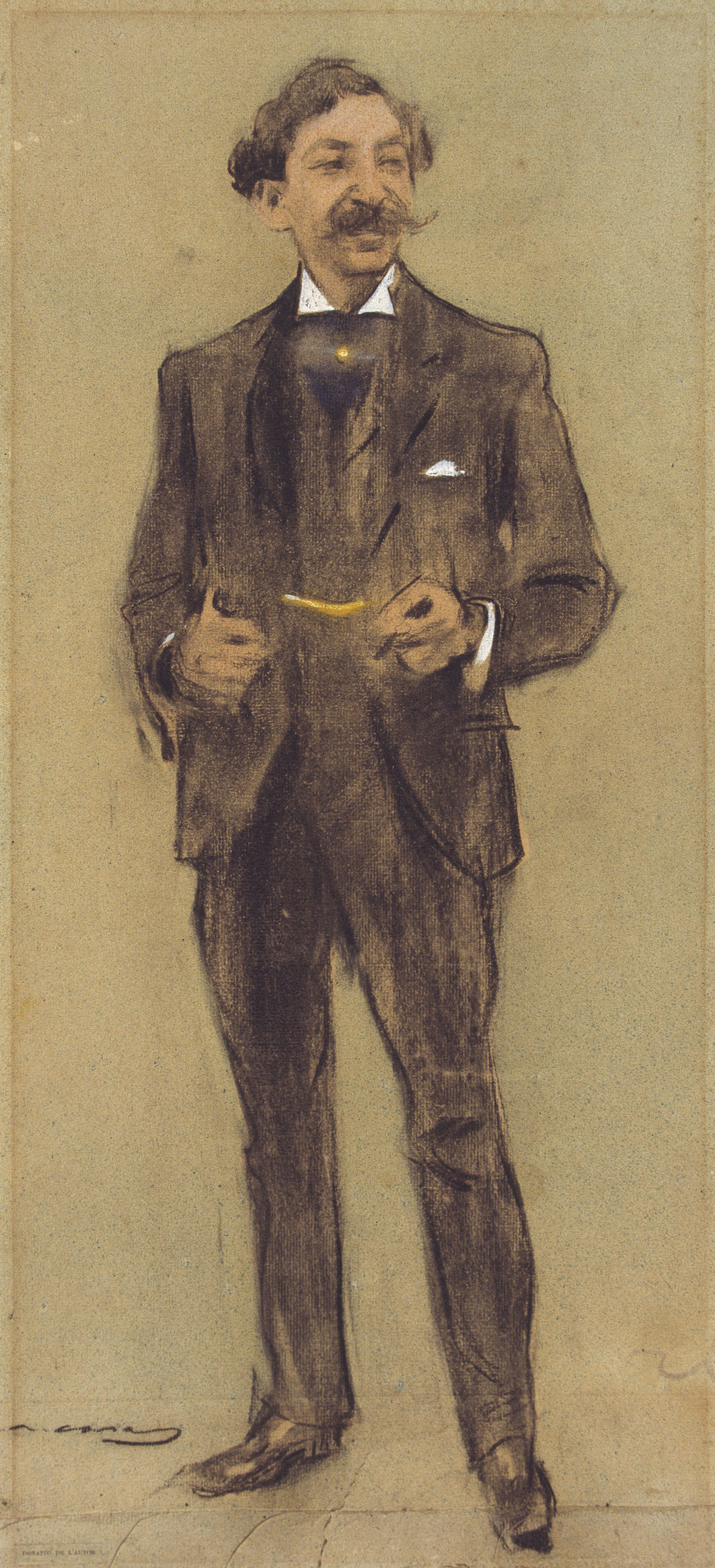 Portrait by Ramon Casas conserved at MNAC in Barcelona. Imagen 007